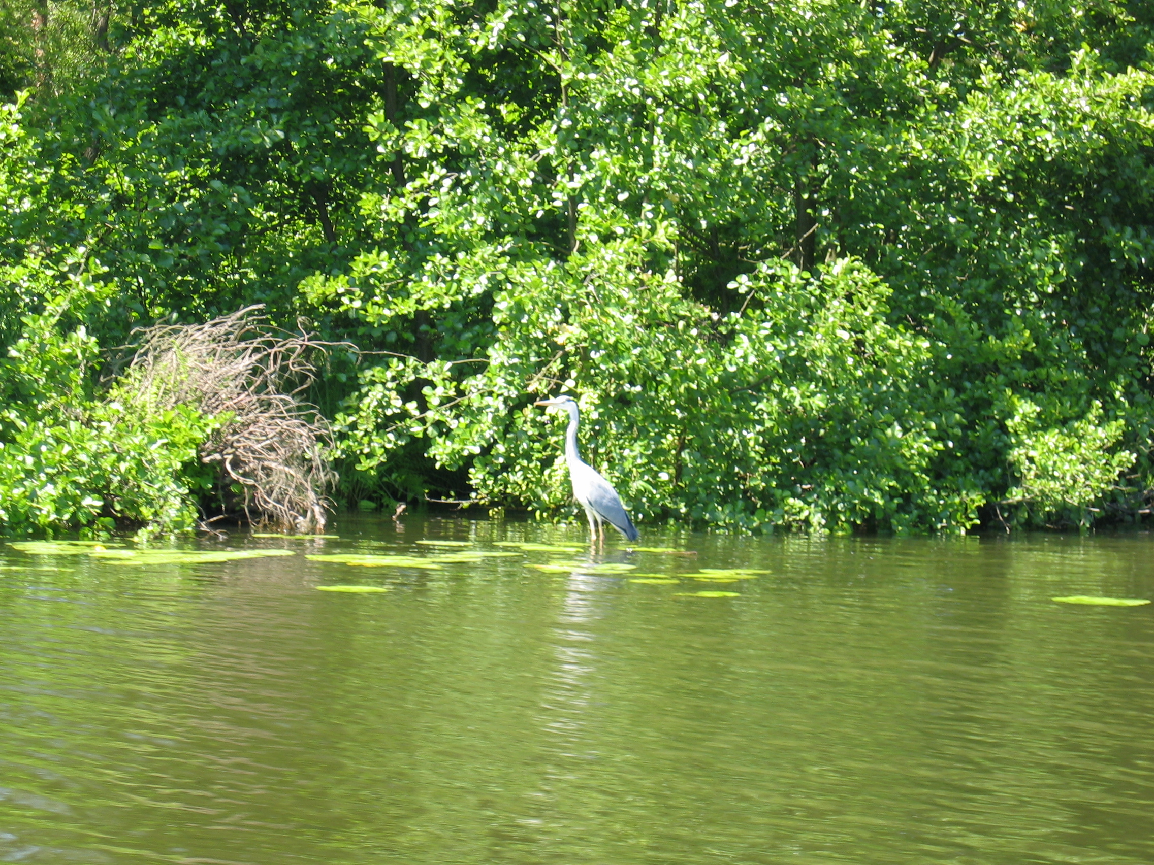 Photo of a Grey Heron at Gudenåen, Denmark.